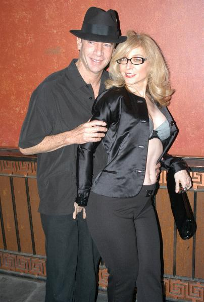 April 5 2007: XRCO Awards 2007.